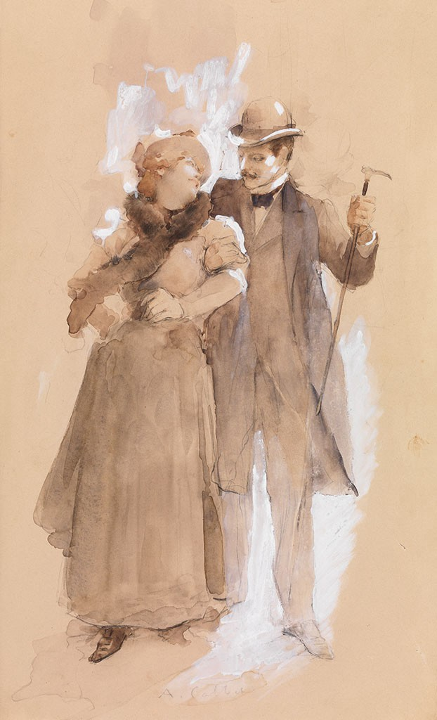 Painting by Antoine Calbet